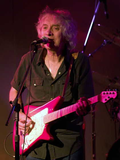 Albert Lee The Corner Hotel, Melbourne, August 2007